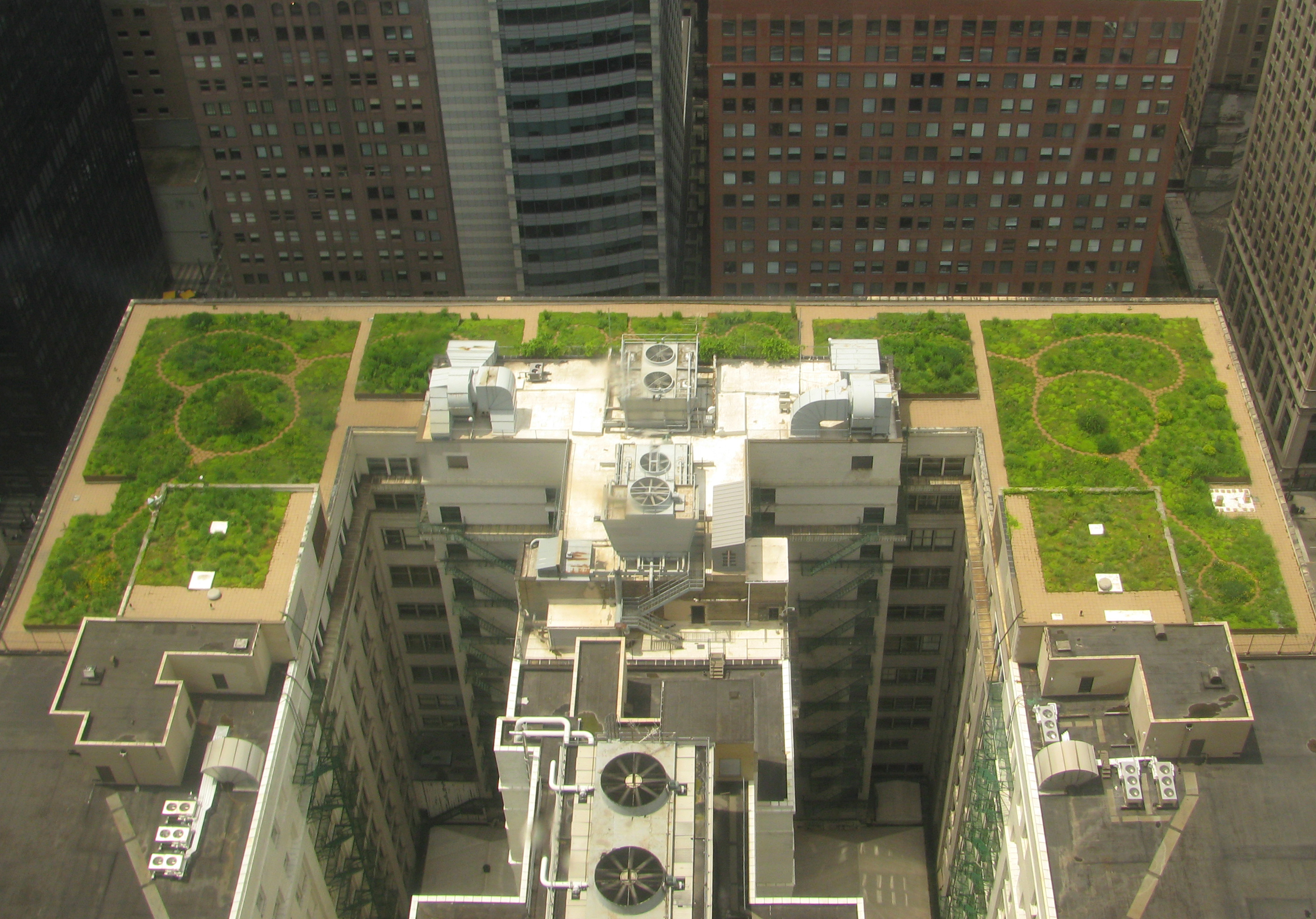 Chicago City Hall Green Roof